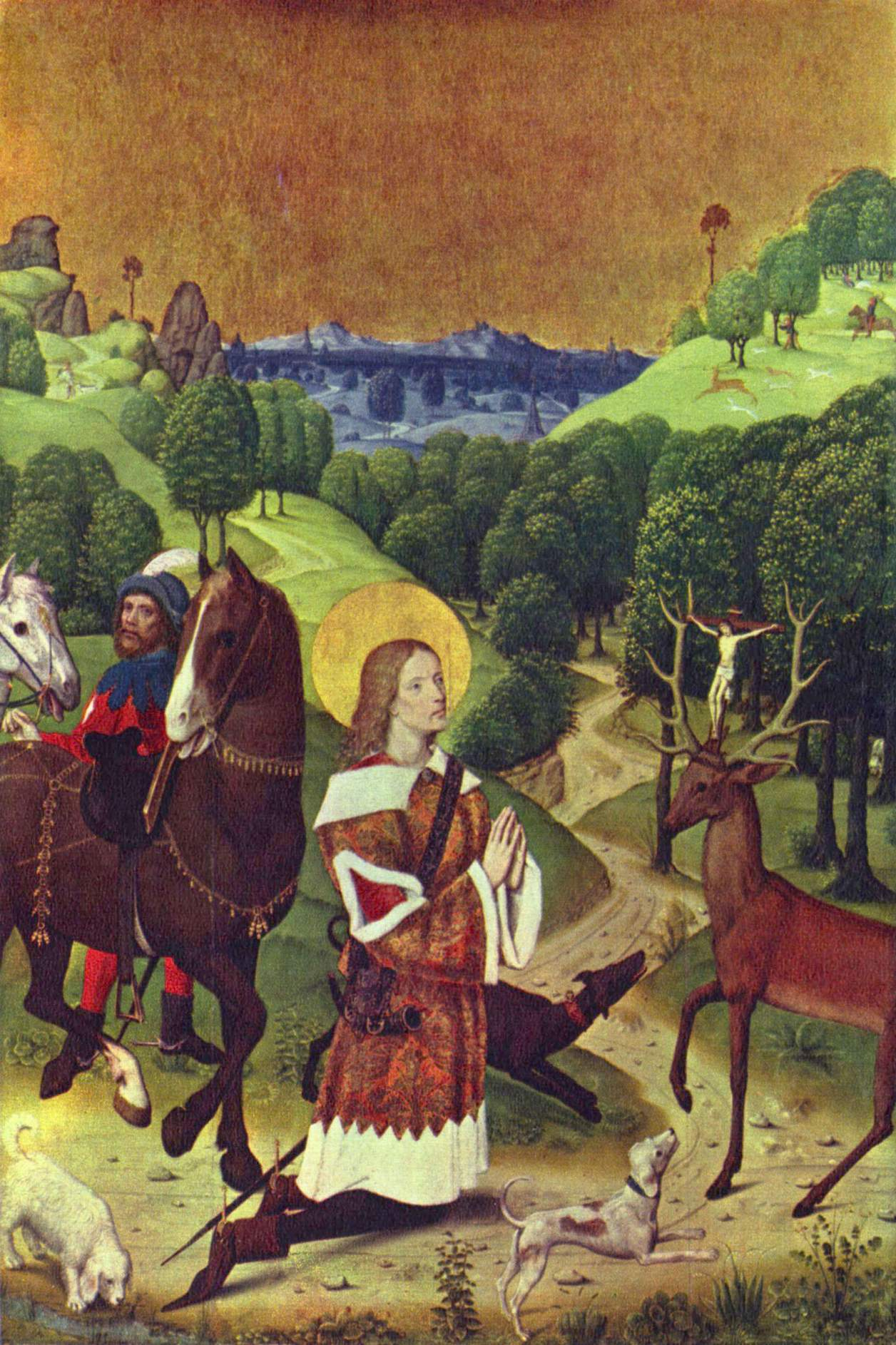 Two Shutters from the Werden Altarpiece